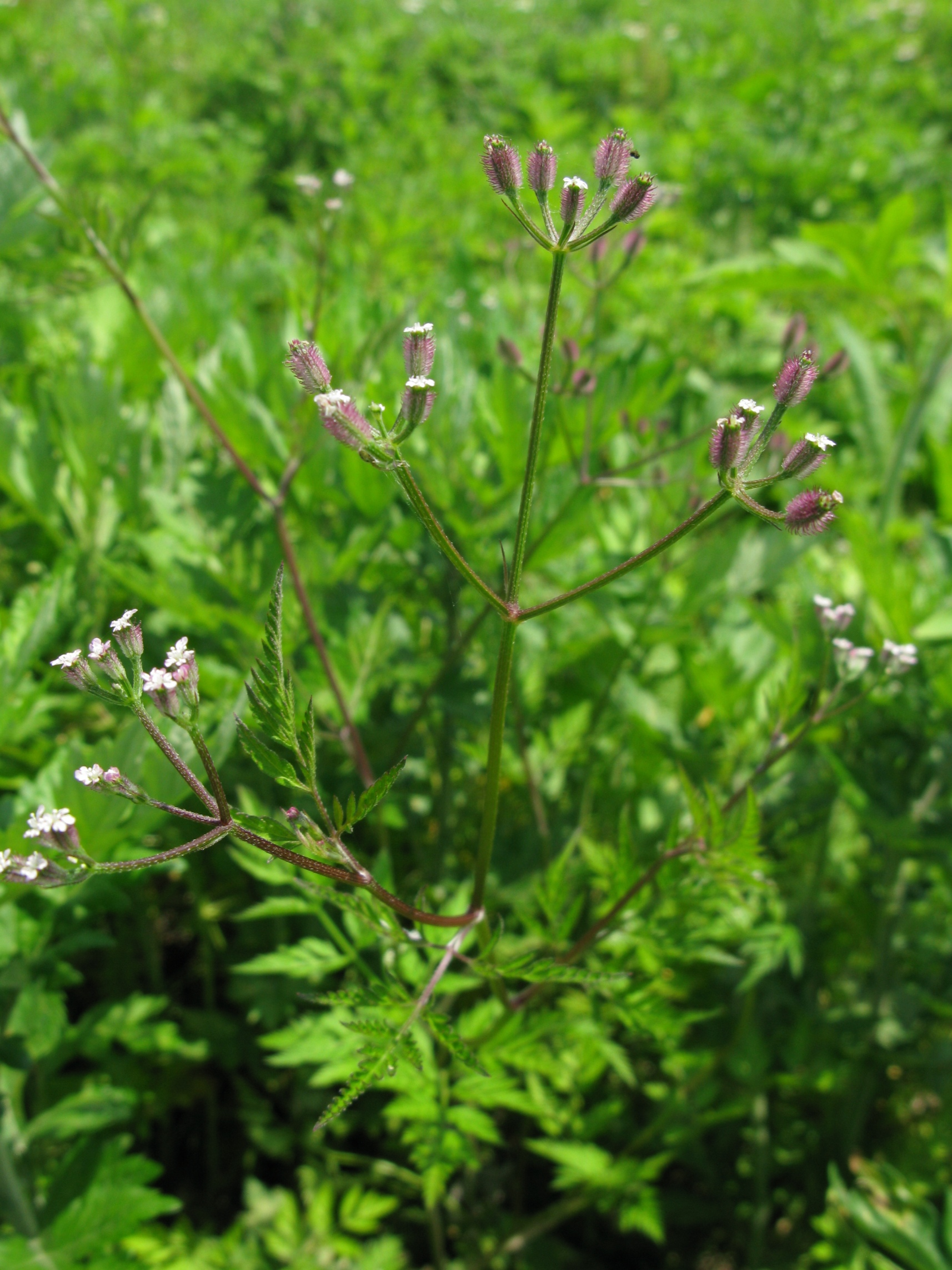 Torilis scabra, Aizu area, Fukushima pref., Japan